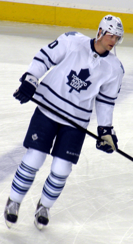 Toronto Maple Leafs forward David Steckel prior to a National Hockey League game against the Calgary Flames.